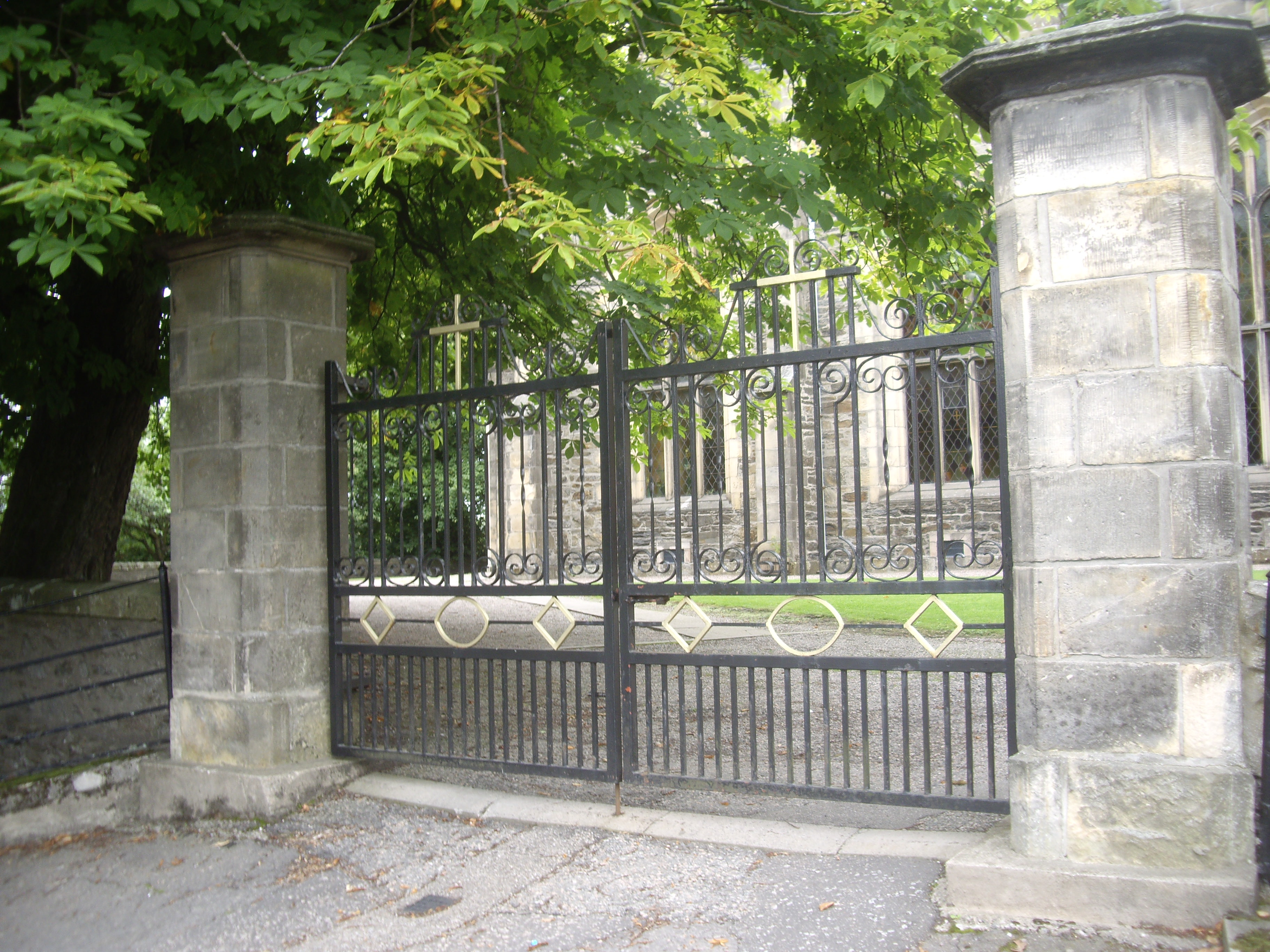 The gate of St Rufus Church in Keith, Moray, Scotland